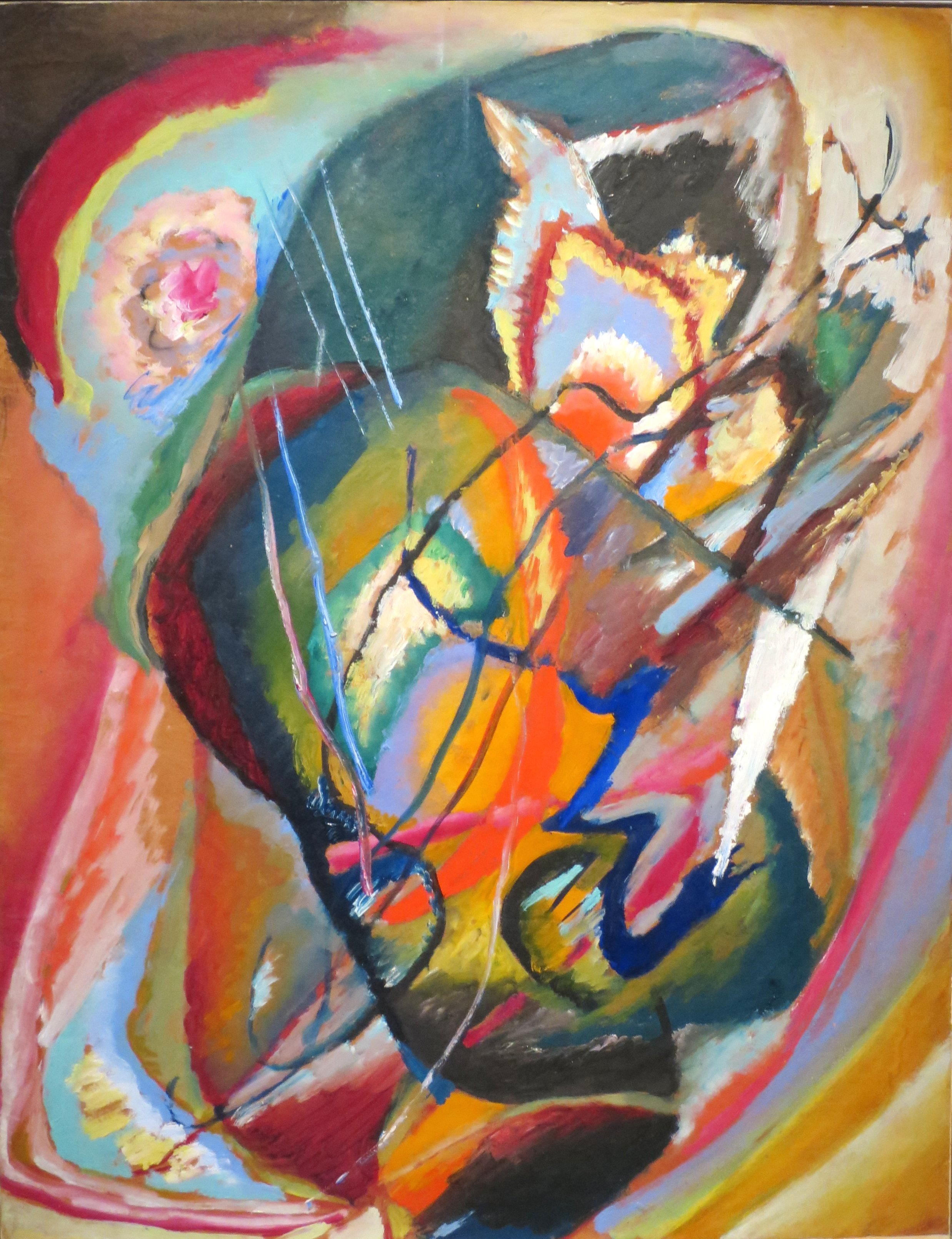 Untitled Improvisation III by Wassily Kandinsky, 1914, oil on cardboard, LACMA